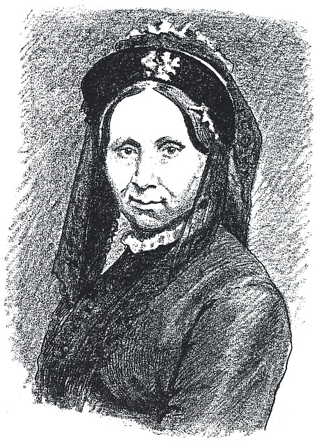 German writer Eulalia Merx (1815-1908), older sister of writer Louise Aston, mother of Adalbert Merx.